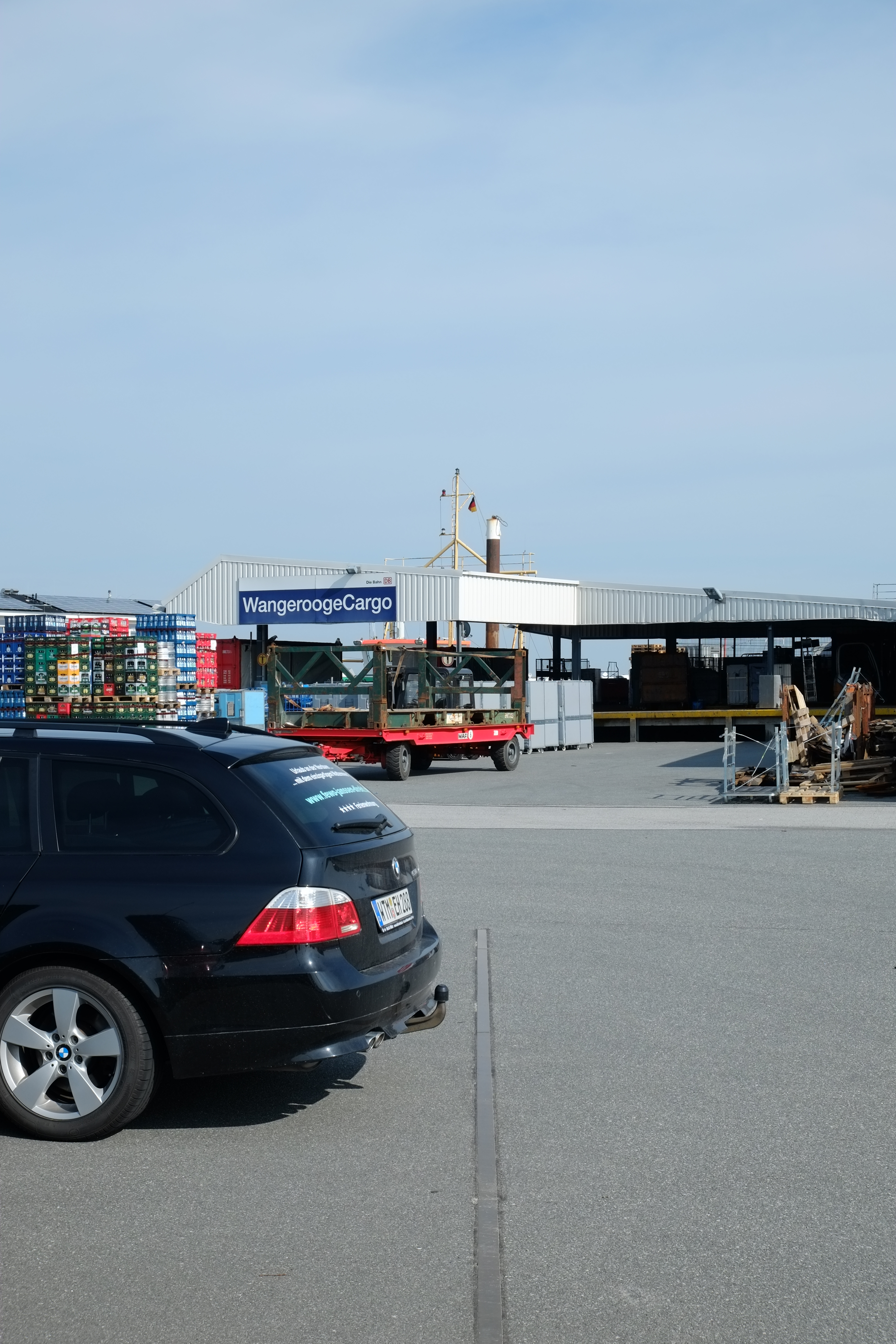 The Golden Line in port of Harlesiel